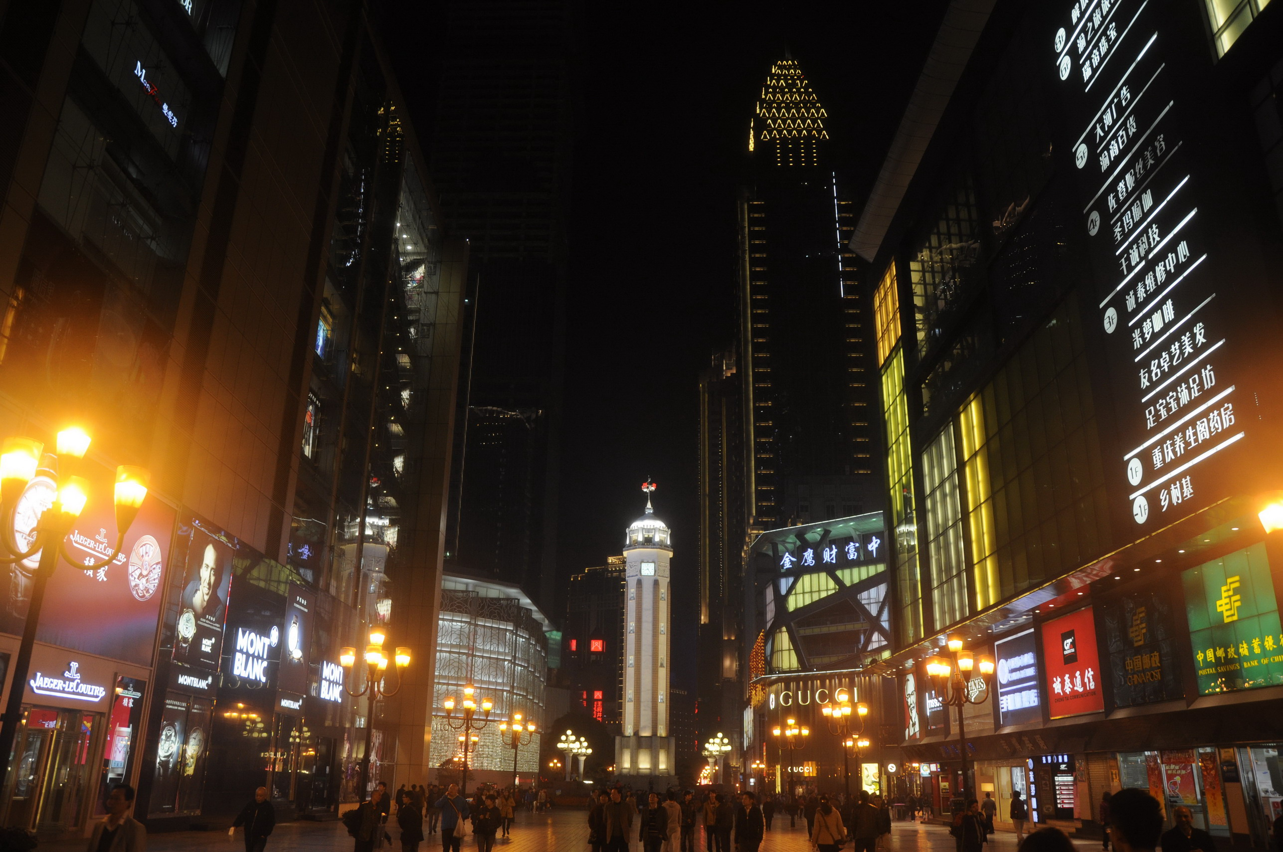 A close view of Jiefangbei CBD,Central Chongqing at night.The photo was taken by Prof.Chen Hualin.